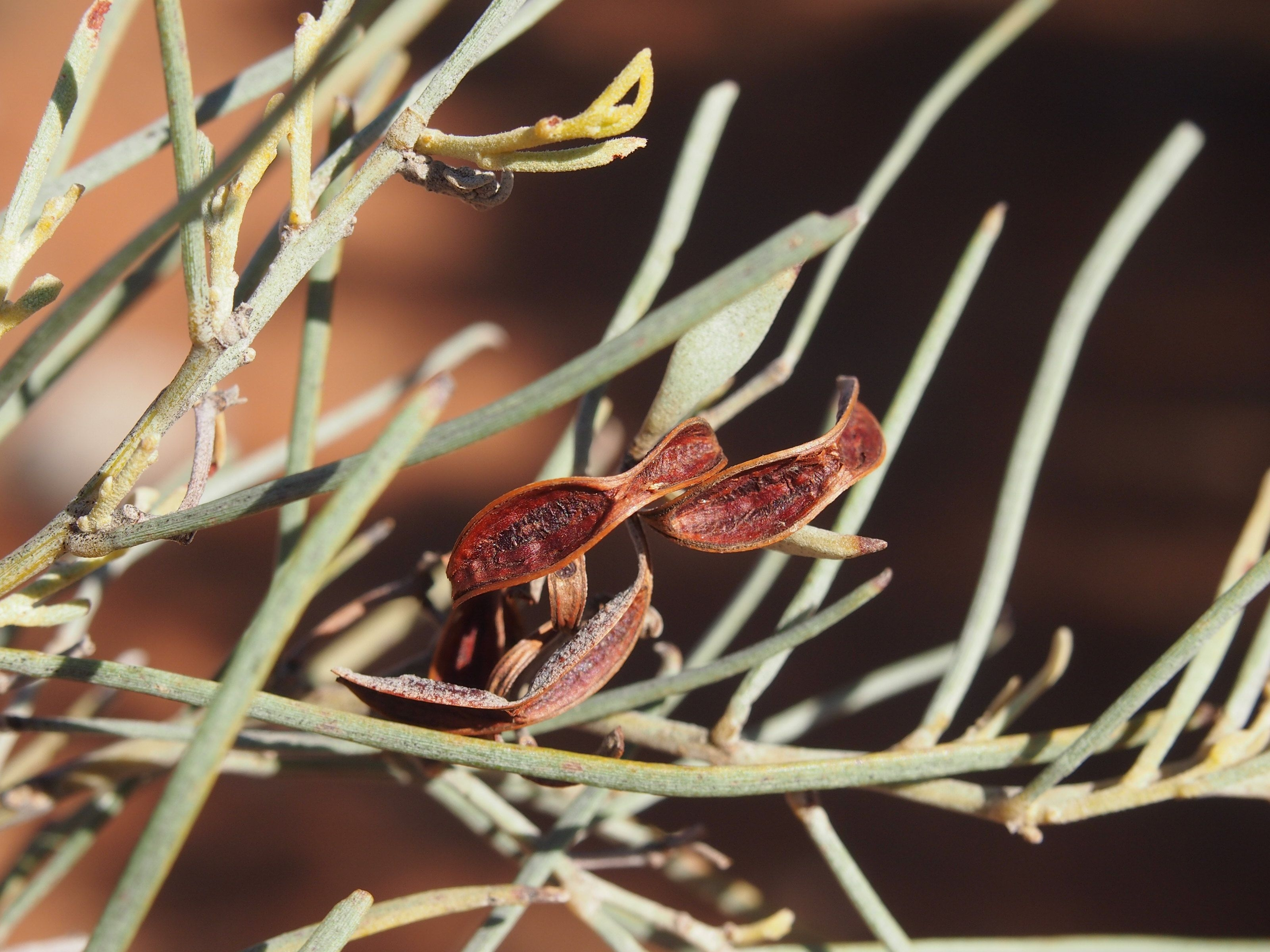 Acacia calcicola legumes